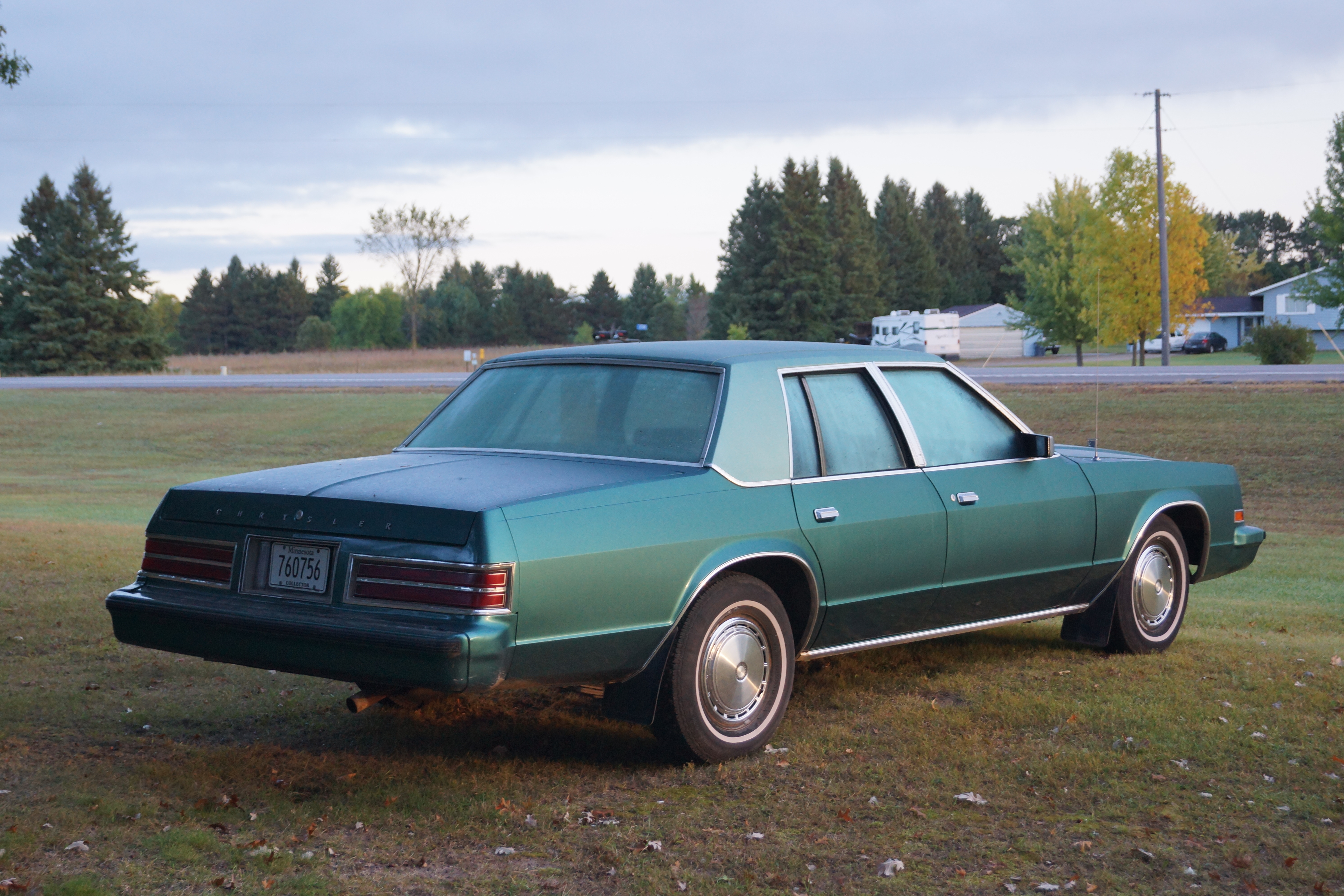 ******** Click here for more car pictures at my Flickr site. Or here for my Car Crazy Tumblr site. Or on Twitter @DVS1mn.